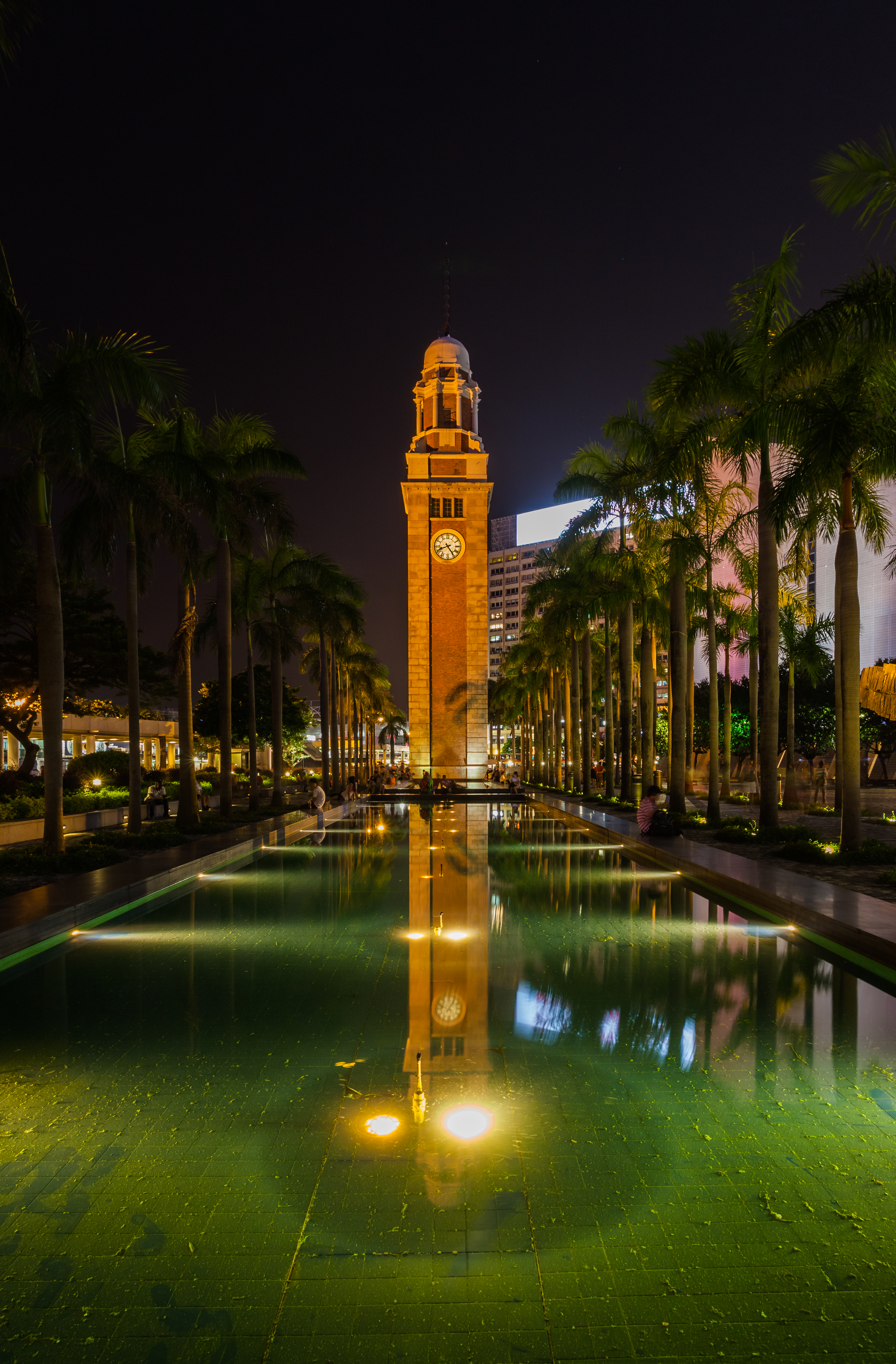 Clock Tower, Kowloon, Hong Kong